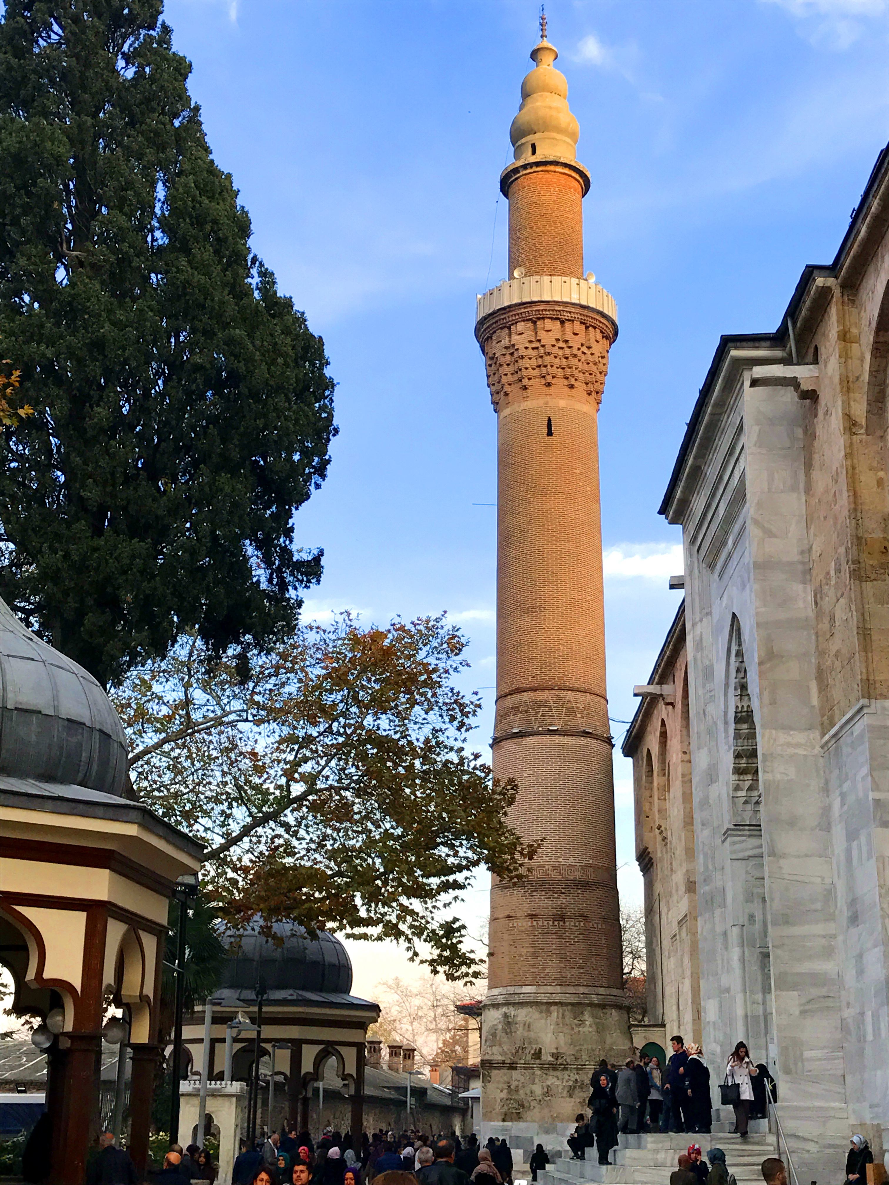 "Ulu Cami" (Bursa Grand Mosque) is built in the Seljuk style, it was ordered by the Ottoman Sultan Bayezid I and built between 1396 and 1399. The mosque has 20 domes and 2 minarets. The Mosque is in Bursa, Turkey.